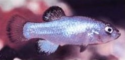 Devils Hole PupfishLatina: Cyprinodon diabolis